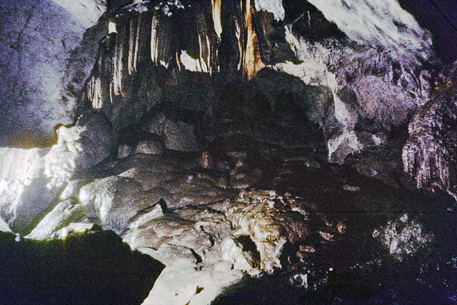 Easter Chamber, Reeds Cave, Buckfastleigh The Easter Chamber is so-called because of the church-like disposition of the stalactites and stalagmites. The chamber itself is quite small, a matter of metres.